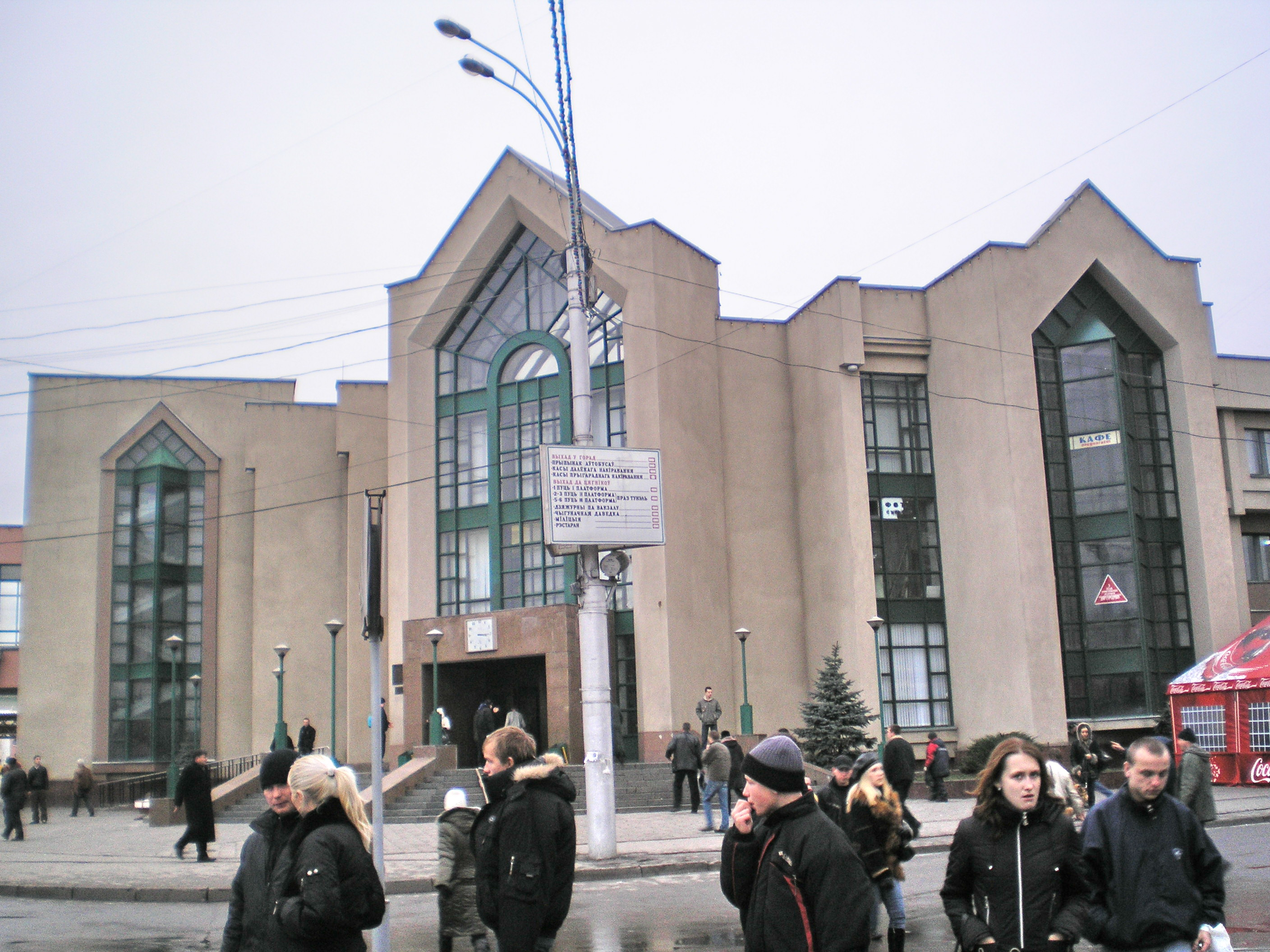 Suburban Railway Station in Gomel